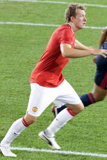 Manchester United footballer Phil Jones in 2011 MLS all-stars game in the New York, USA.